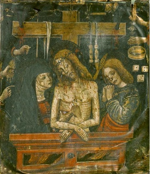 The Man of Sorrows with Virgin Mary and Saint John, Cannobio, Italy